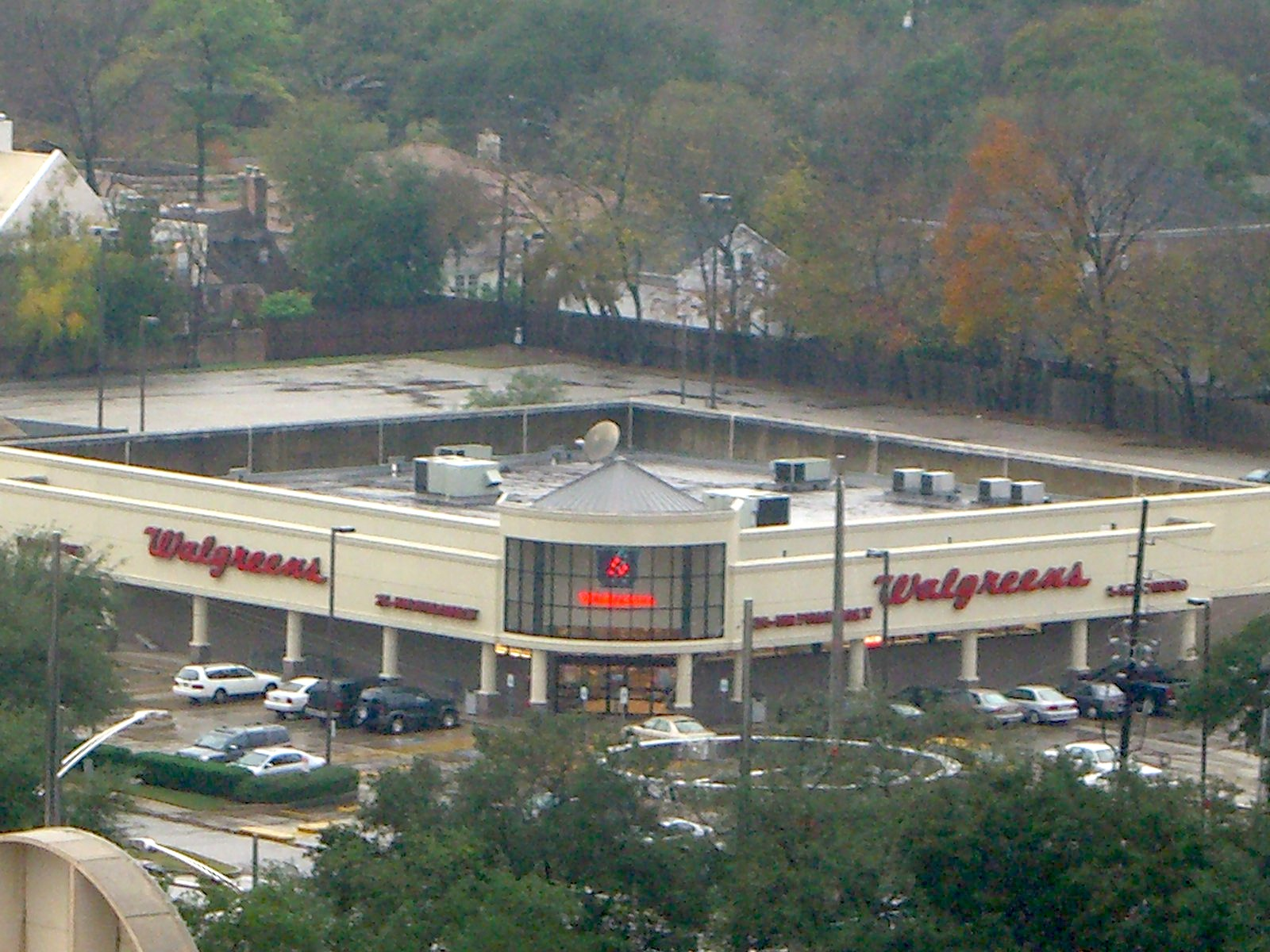 An Uptown Houston Walgreens at a street intersection.